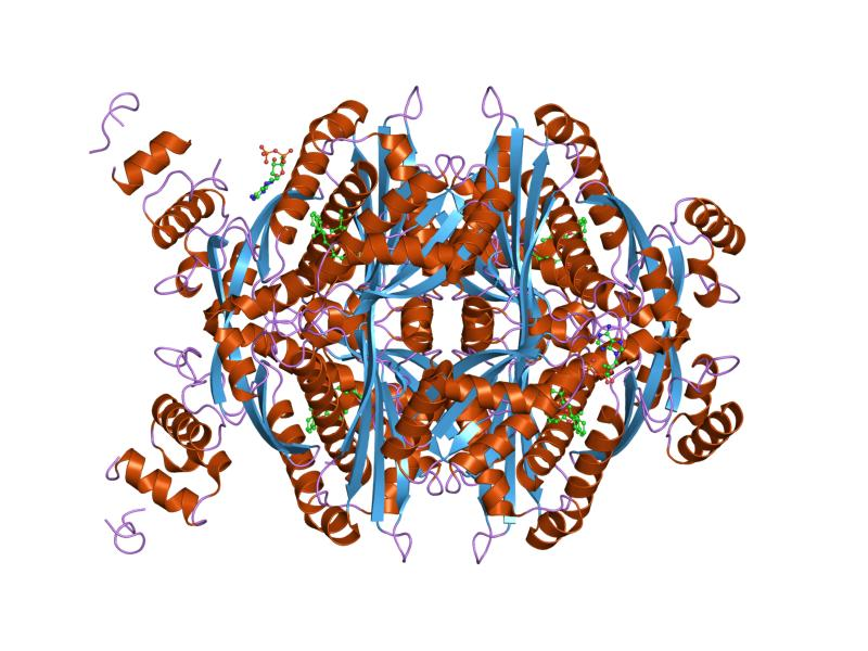 Cartoon representation of the molecular structure of protein registered with 1hw8 code.